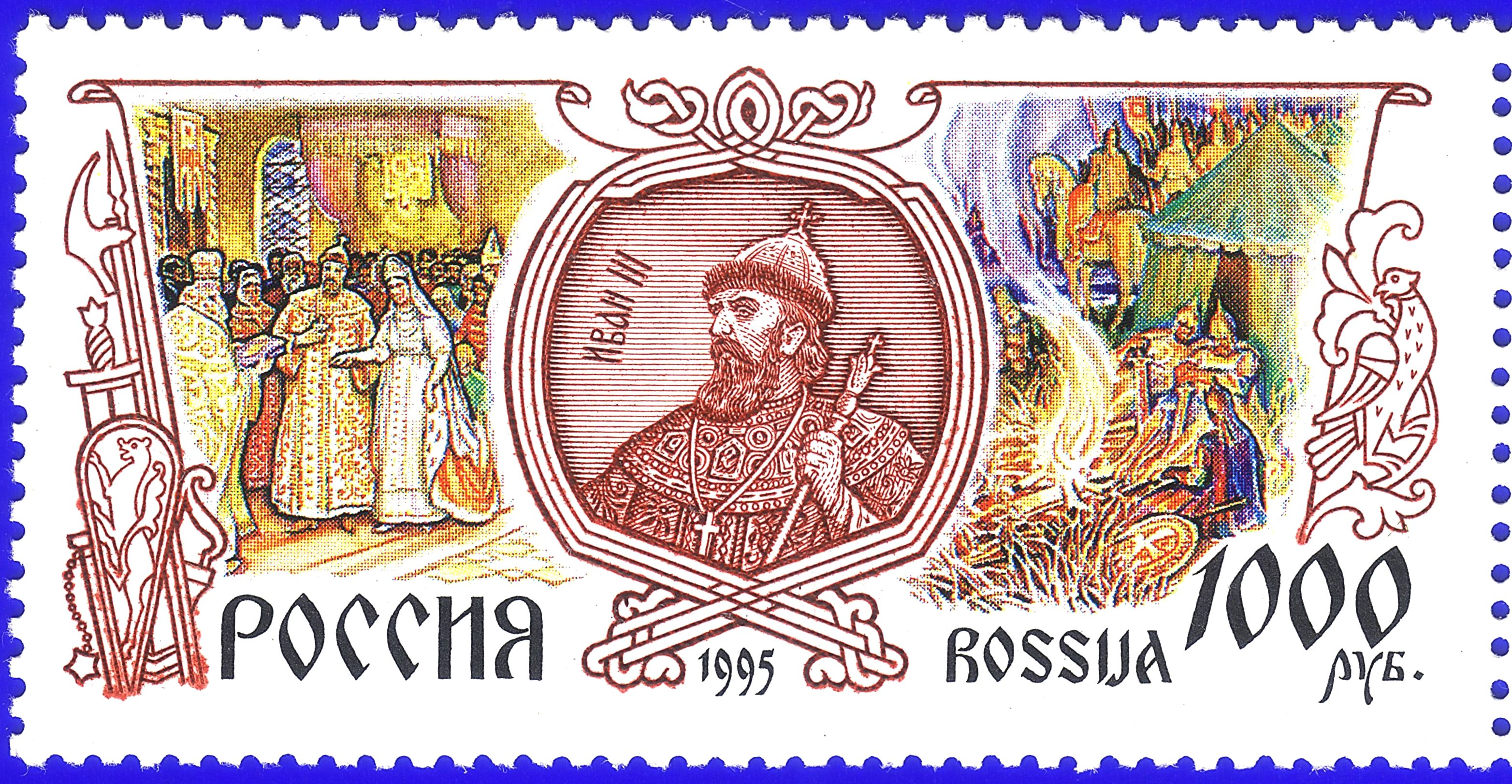 Stamp of Russia. Ivan III. 1995, 1000 rubles, CPA #?